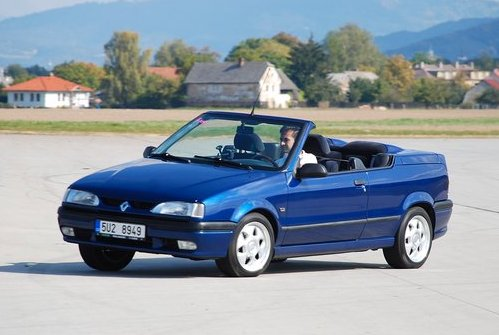 Renault 19 Cabrio/Convertible with top open.